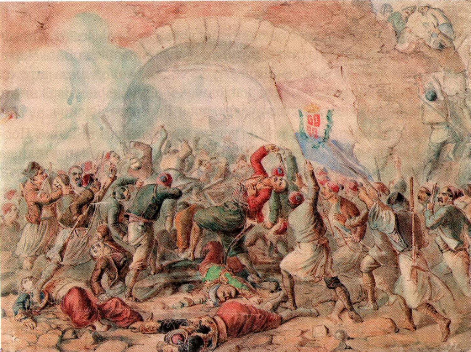 The death of Vasa Čarapić at the Stambol Gate